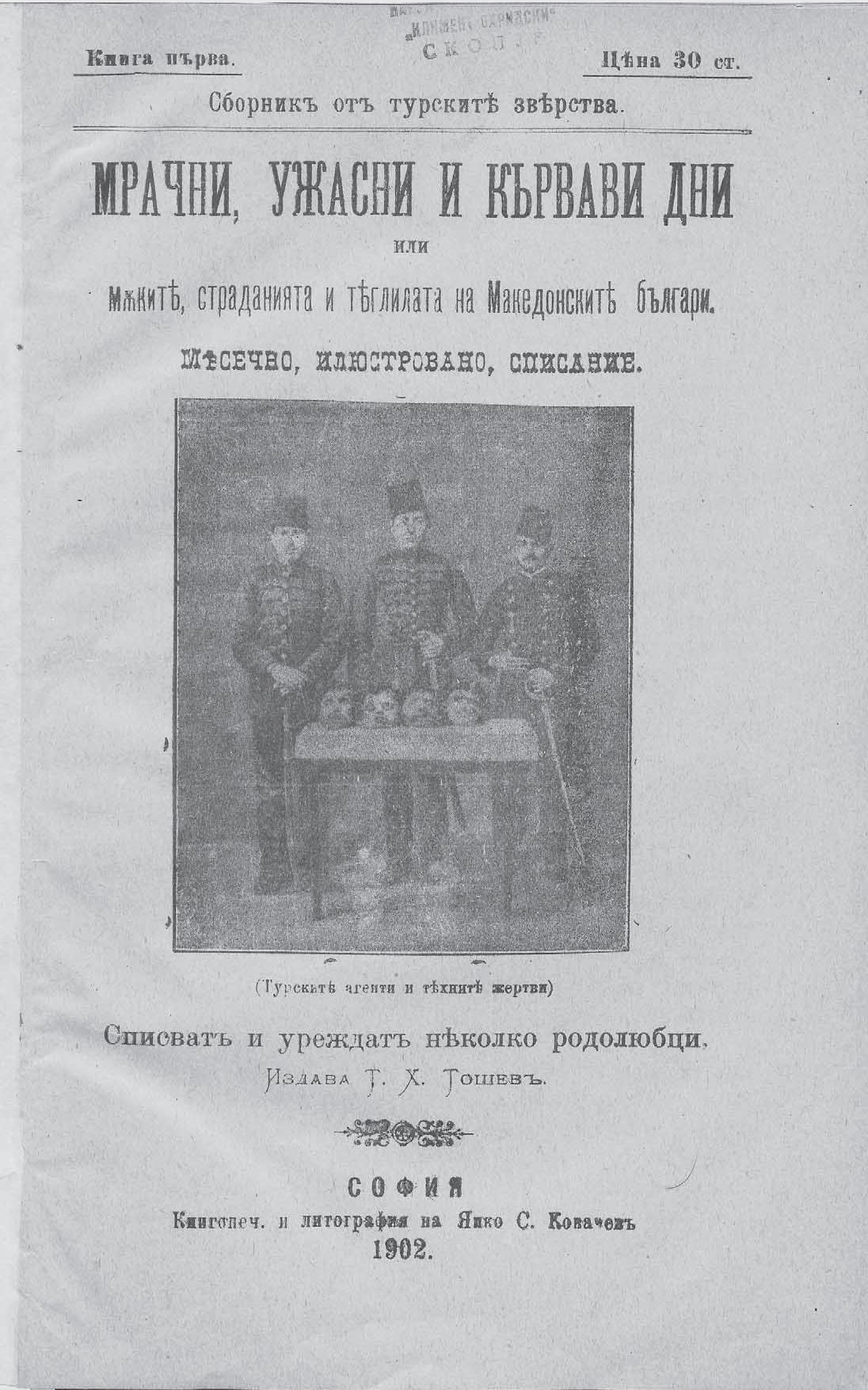 frontpage of revolutionary magazine